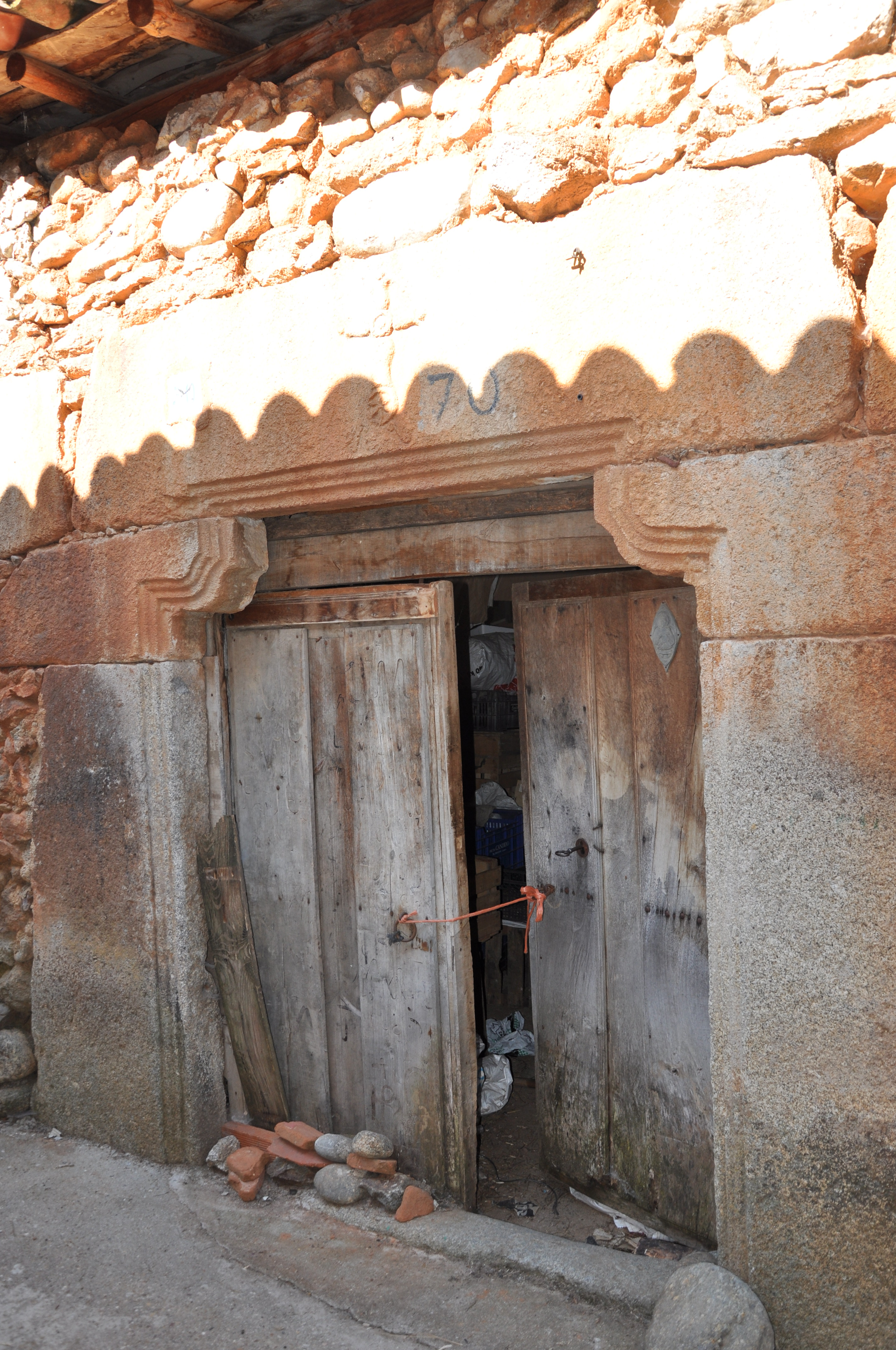 Detail of vernacular architecture in Becedas, Ávila, Spain